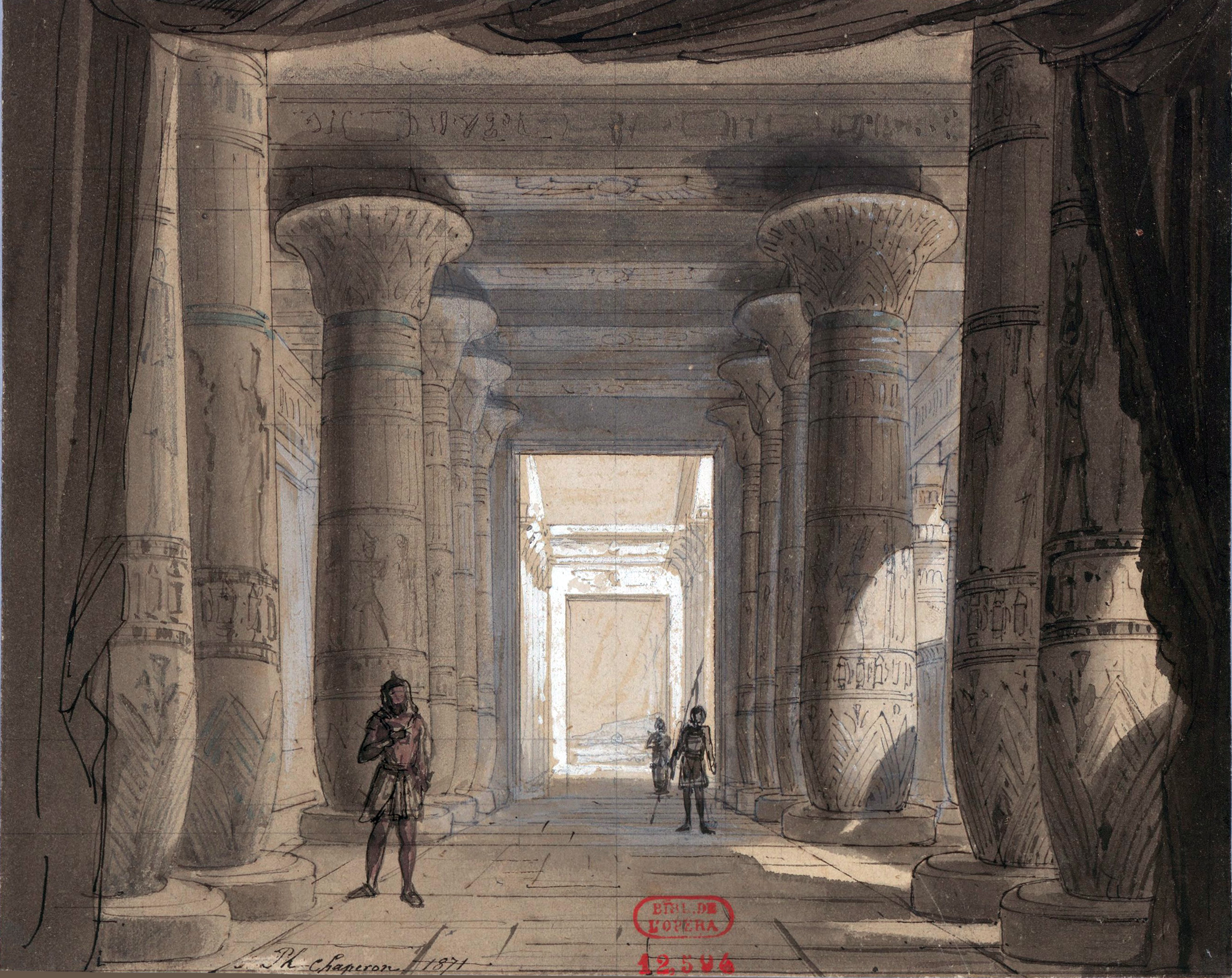 Set design for Act 1 tableau 2 ("Temple of Vulcan") of Verdi's opera Aida as first performed at the Cairo Opera House on 24 December 1871